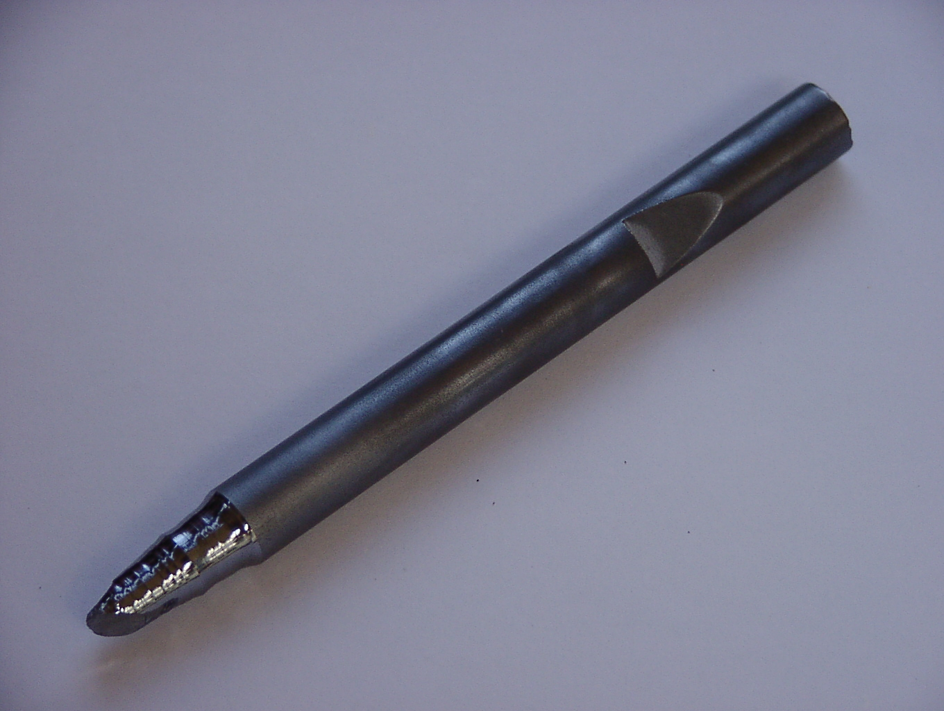 A puller rod for growing silicon boules by Czochralski process. It is made from single-crystal silicon. The shiny tip is the part to be dipped into molten silicon and acts as a seed crystal. Note the notch for holding by a chuck. The rod weighs 36 grams and is about 14 cm long and 1.2 cm in diameter.